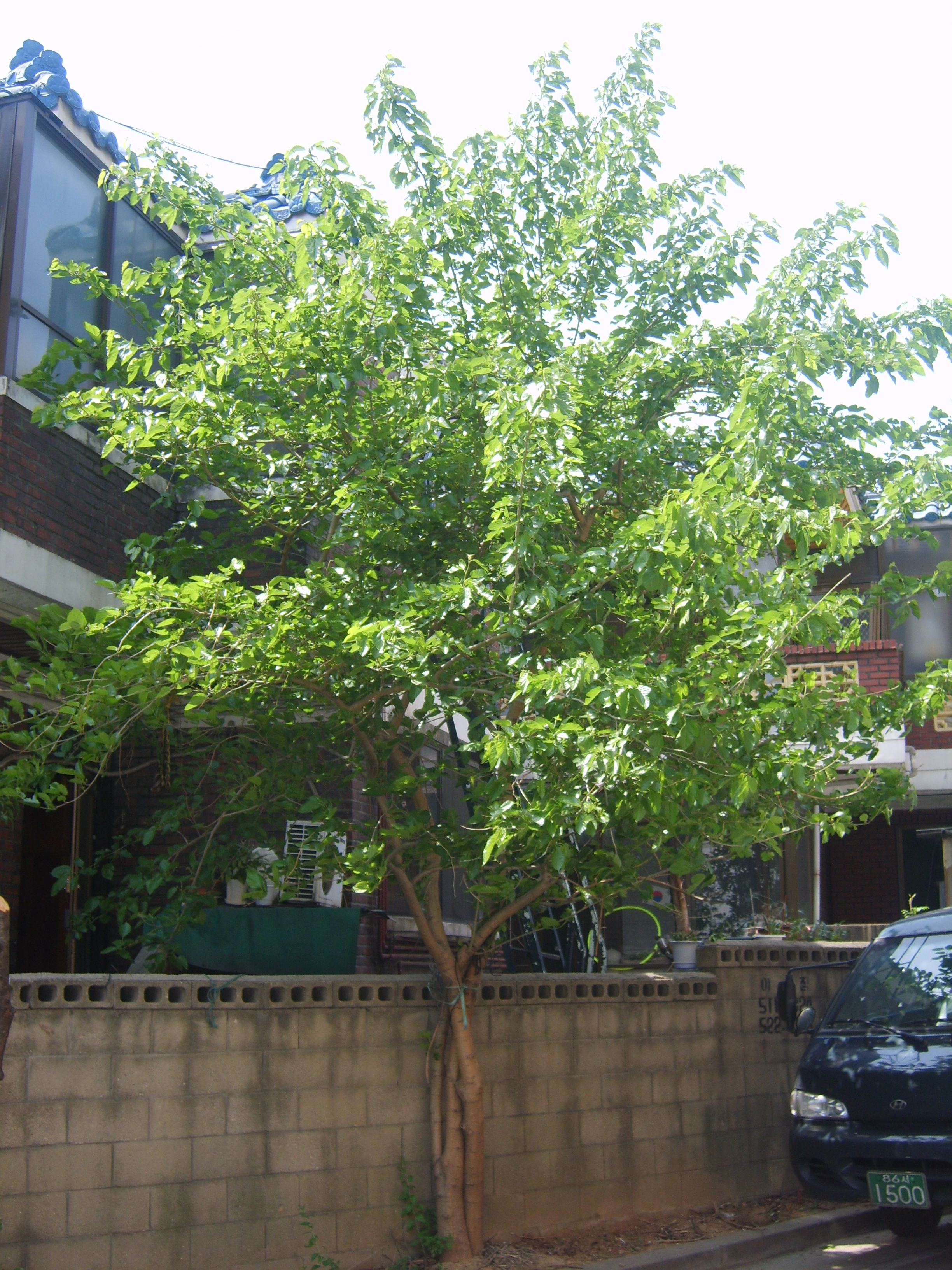 Morus alba in Incheon Korea. 부평역 근처에 사는 뽕나무